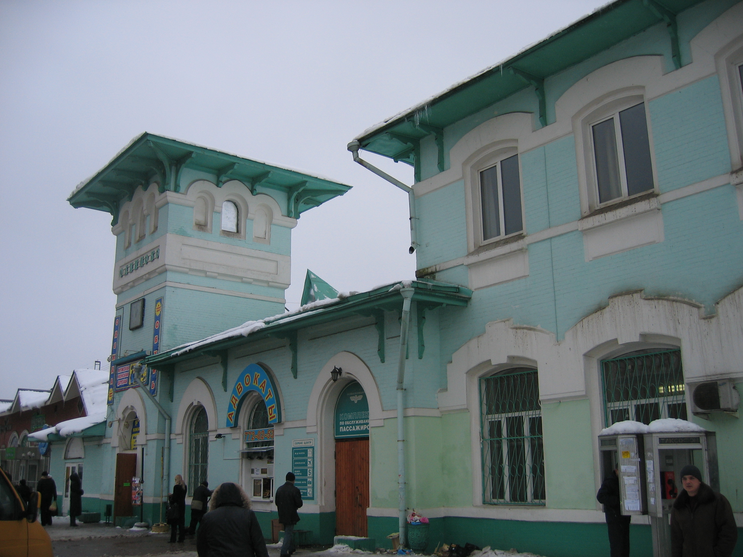 Train station in Odintsovo, Russia